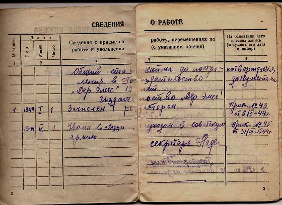 The page of Employment Record Book issued to Moisey Yitkin, the editor of „Der Emes” publishing house in Moscow